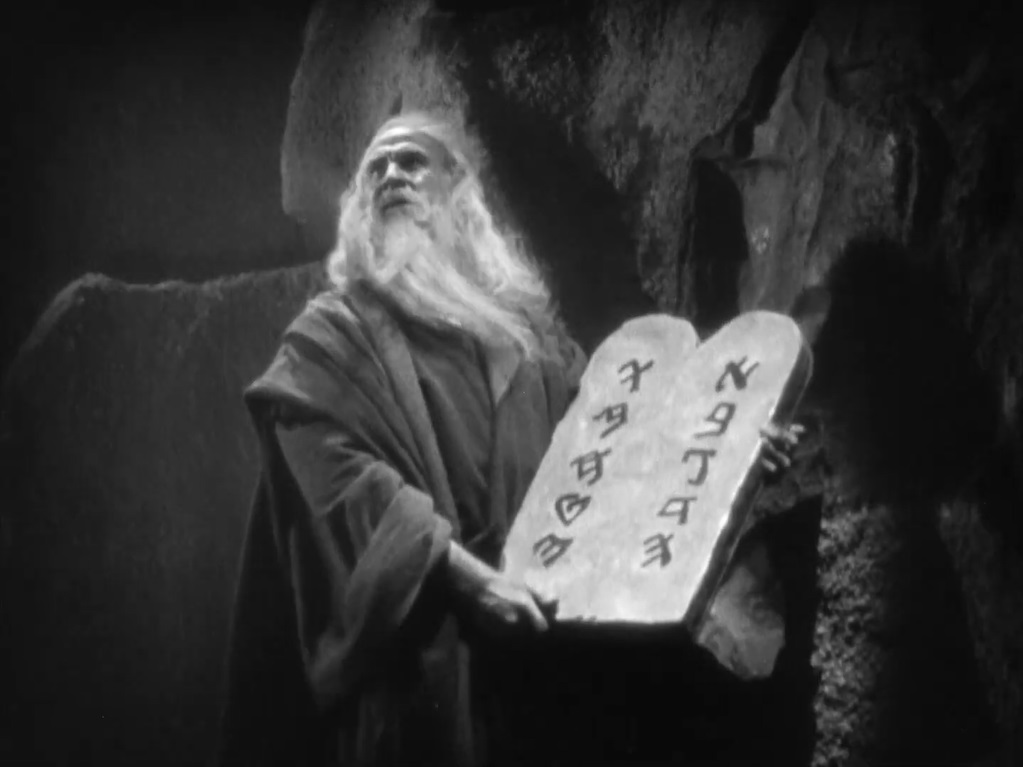 Screenshot from the silent film The Ten Commandments (1923).